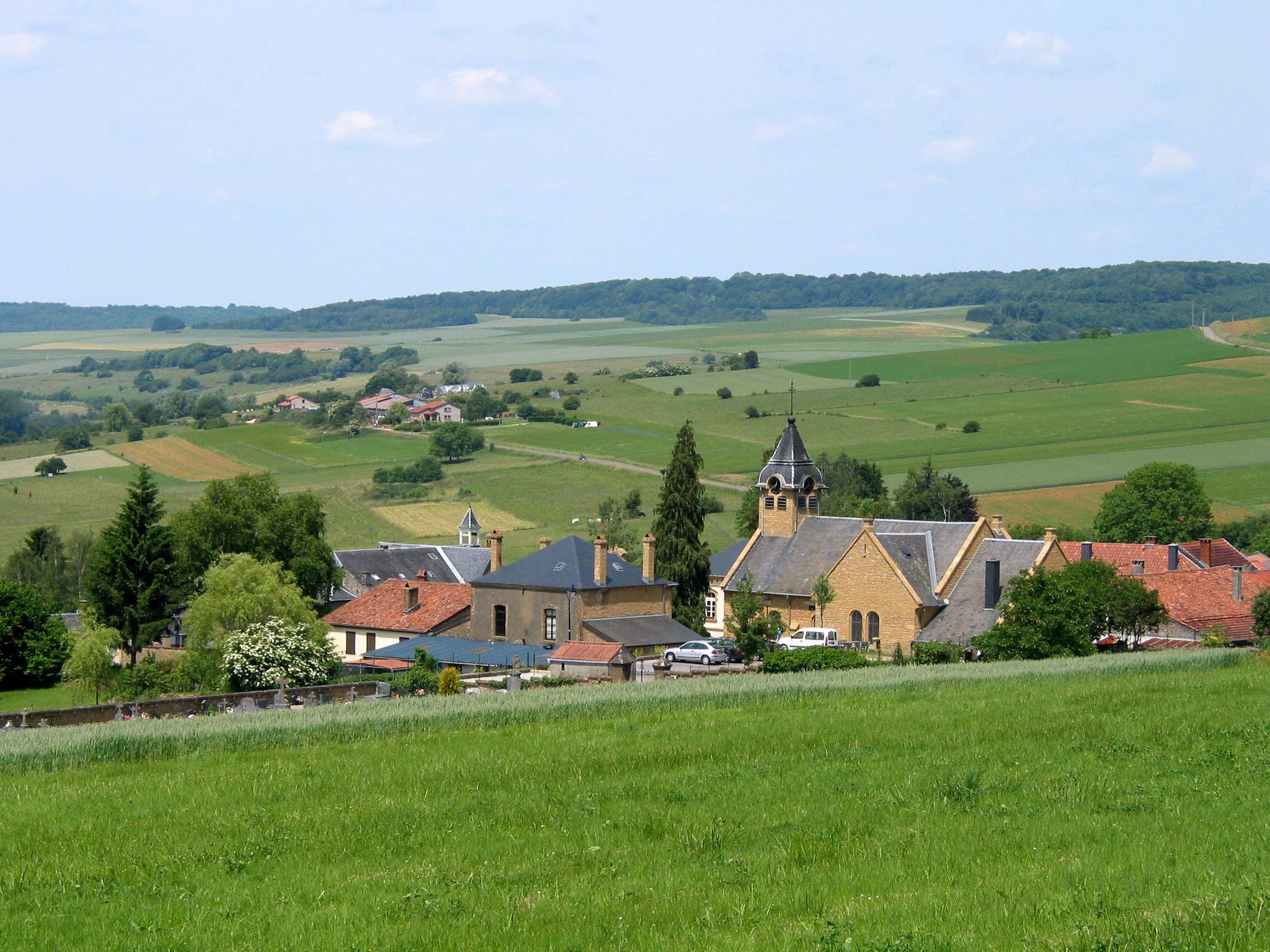 Torgny (Belgium), the meridionalest village of the country.